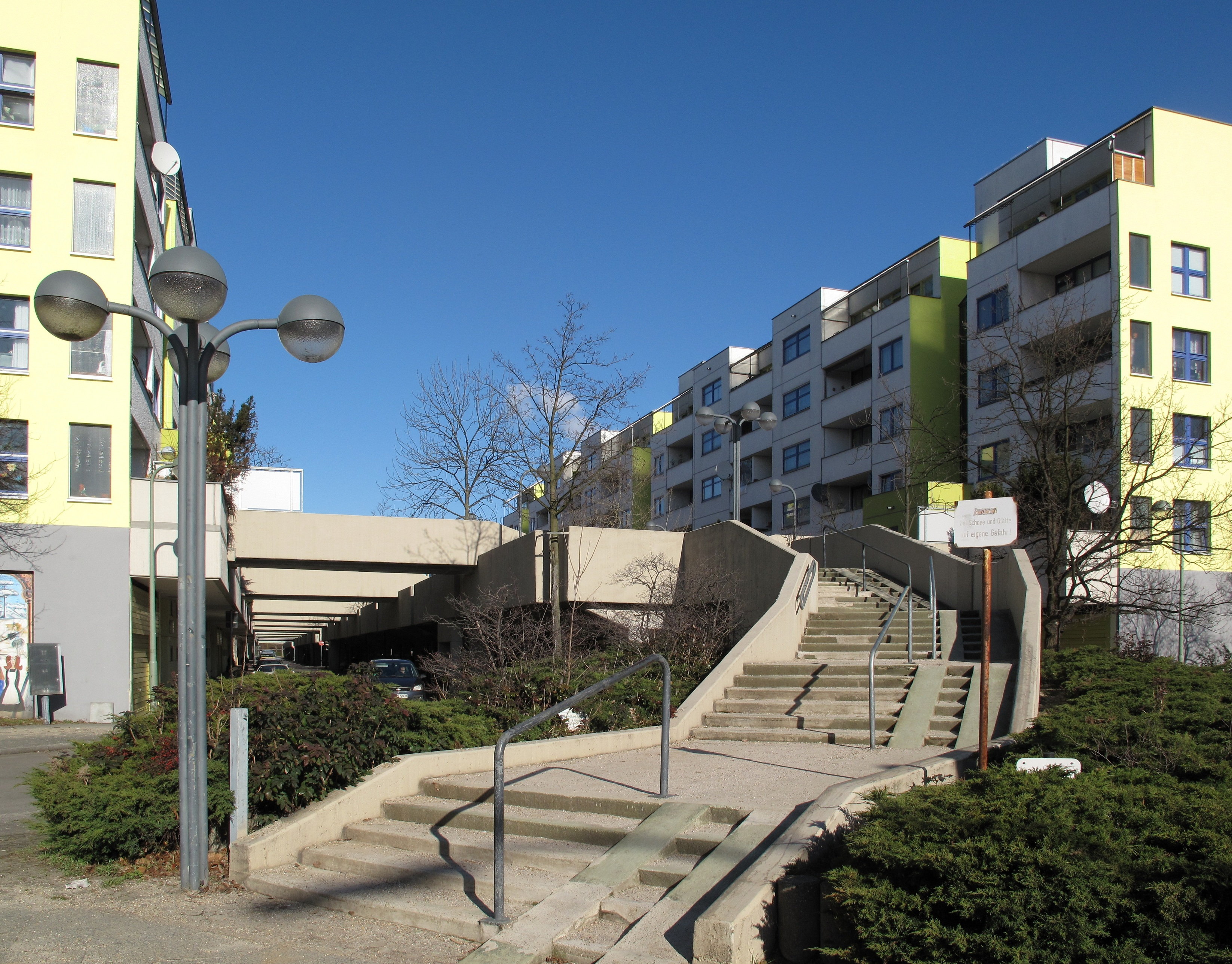 Staircase from the Sonnenallee to the deck of the Michael-Bohnen-Ring (street) in the High-Deck-Siedlung. The High-Deck-Siedlung is a housing estate in Berlin-Neukölln with ca. 6.000 inhabitants. The estate was built in the 1970s/1980s within the subsidized housing by the architects Rainer Oefelein and Bernhard Freund. Their innovative urban development concept counted on a structurally separation of pedestrians and traffic in opposition to Berlin's „urbanity through density“ conception (high-rise-estates) at that time. Above the streets spandrel-braced, green foot pathes (the High-Decks) connect the mainly five to six storied houses. Was the estate after it's construction regarded as the epitome of a tranquil and modern urban living at the green edge of West Berlin, it has evolved after the fall of Berlins Wall into a social hotspot. There was set up a neighbourhood management in 1999.